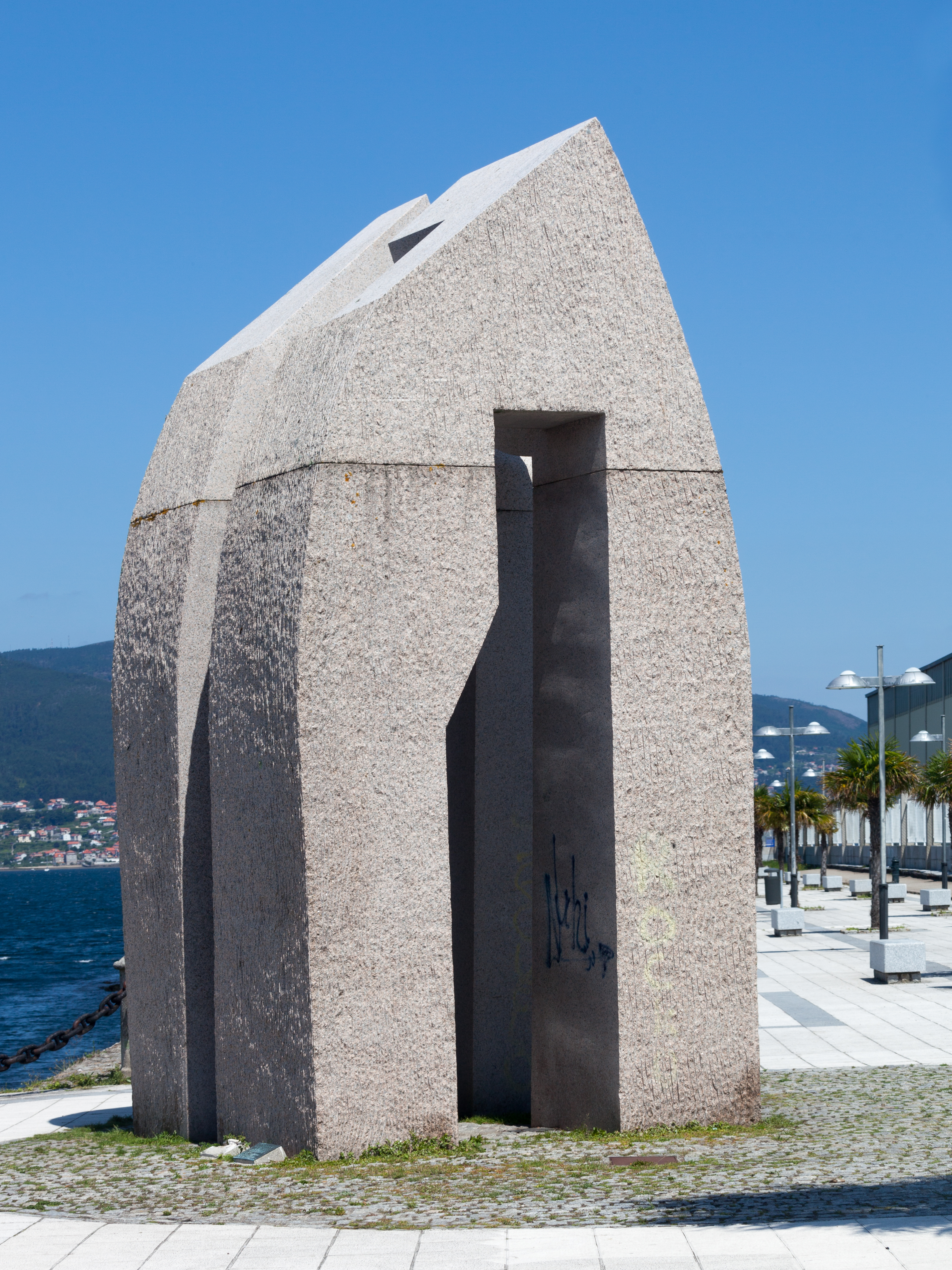 Sculpture "Capela Solis" 1977, Marín, Galicia (Spain). By Silverio Rivas, Sergio Lorenzo, Fernando Martín, Manuel Varela, Marco Cassano.